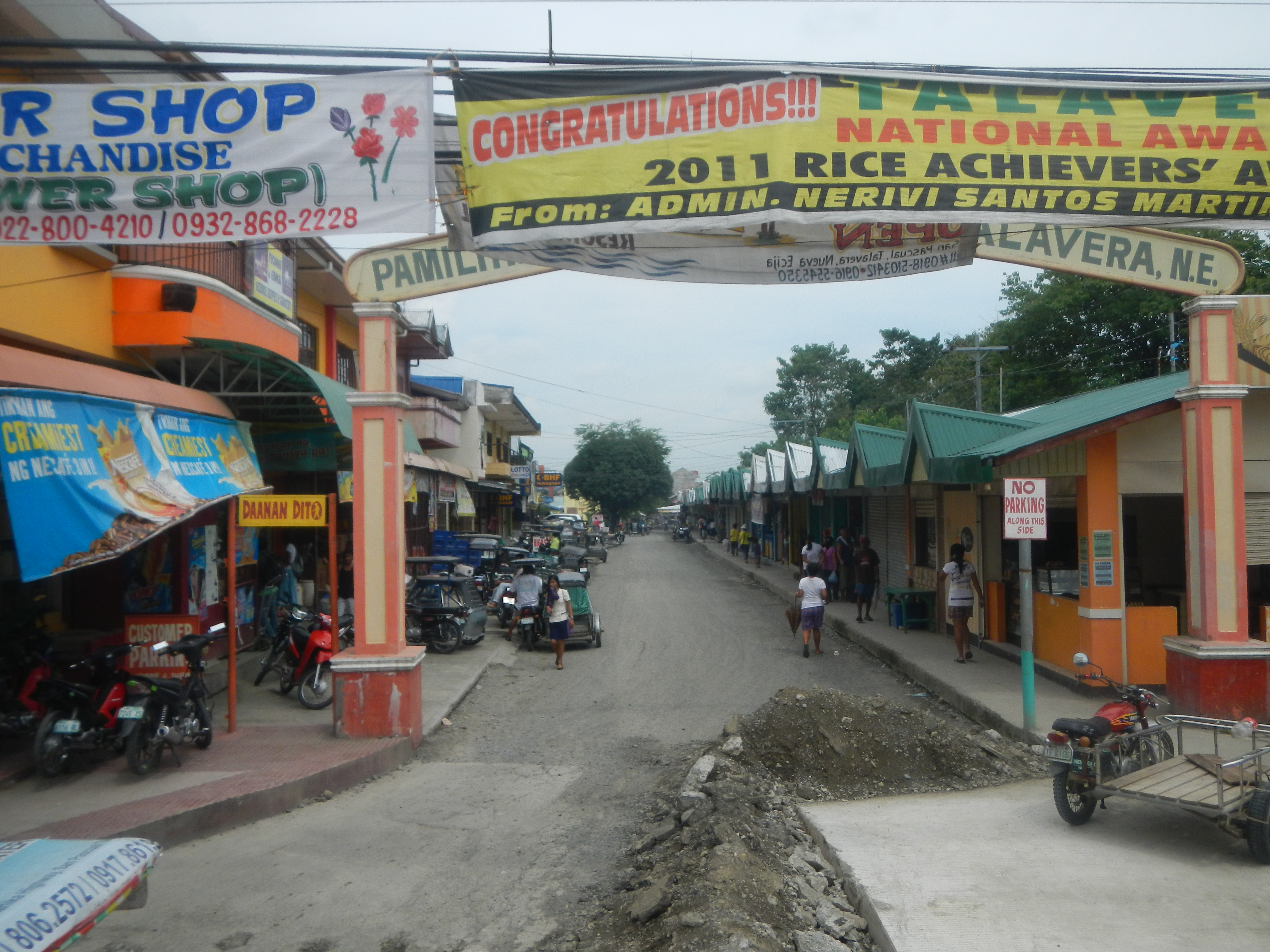 Public market and stores, Talavera, Nueva Ecija